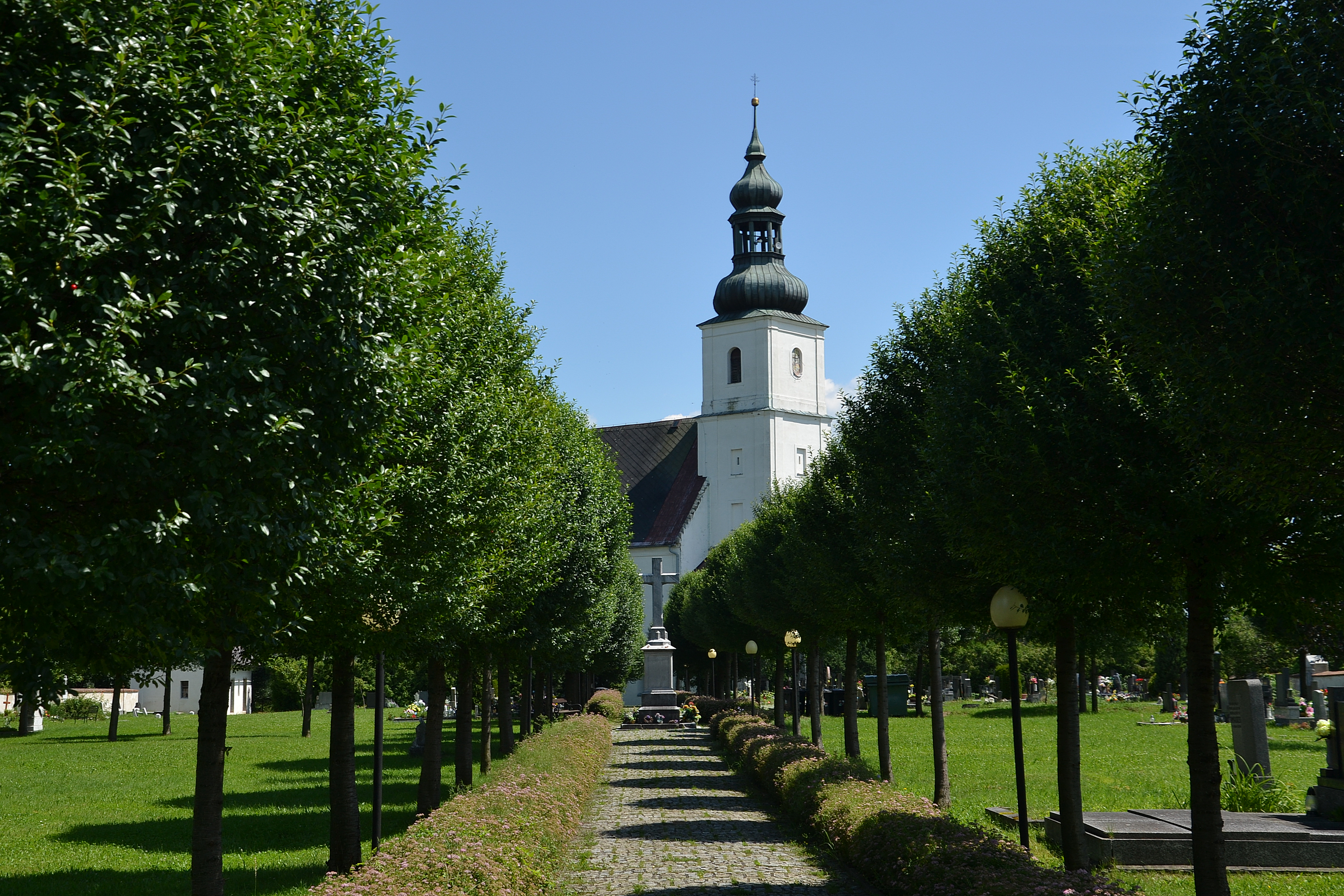 Bernartice (Barzdorf), Czech Silesia - church.